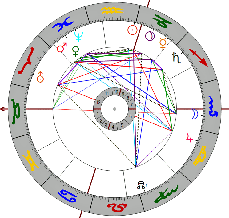 Horoscope of Swearing in US President Donald Trump on Jan 20, 2017, 11h59, Washington D.C.